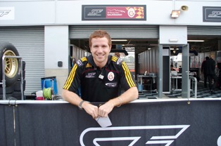 Super_League_Formula_Donington-Scuderia_Playteam_Galatasaray_2008-1.jpg Galatasaray Racin Team Test Driver Jason Tahincioğlu